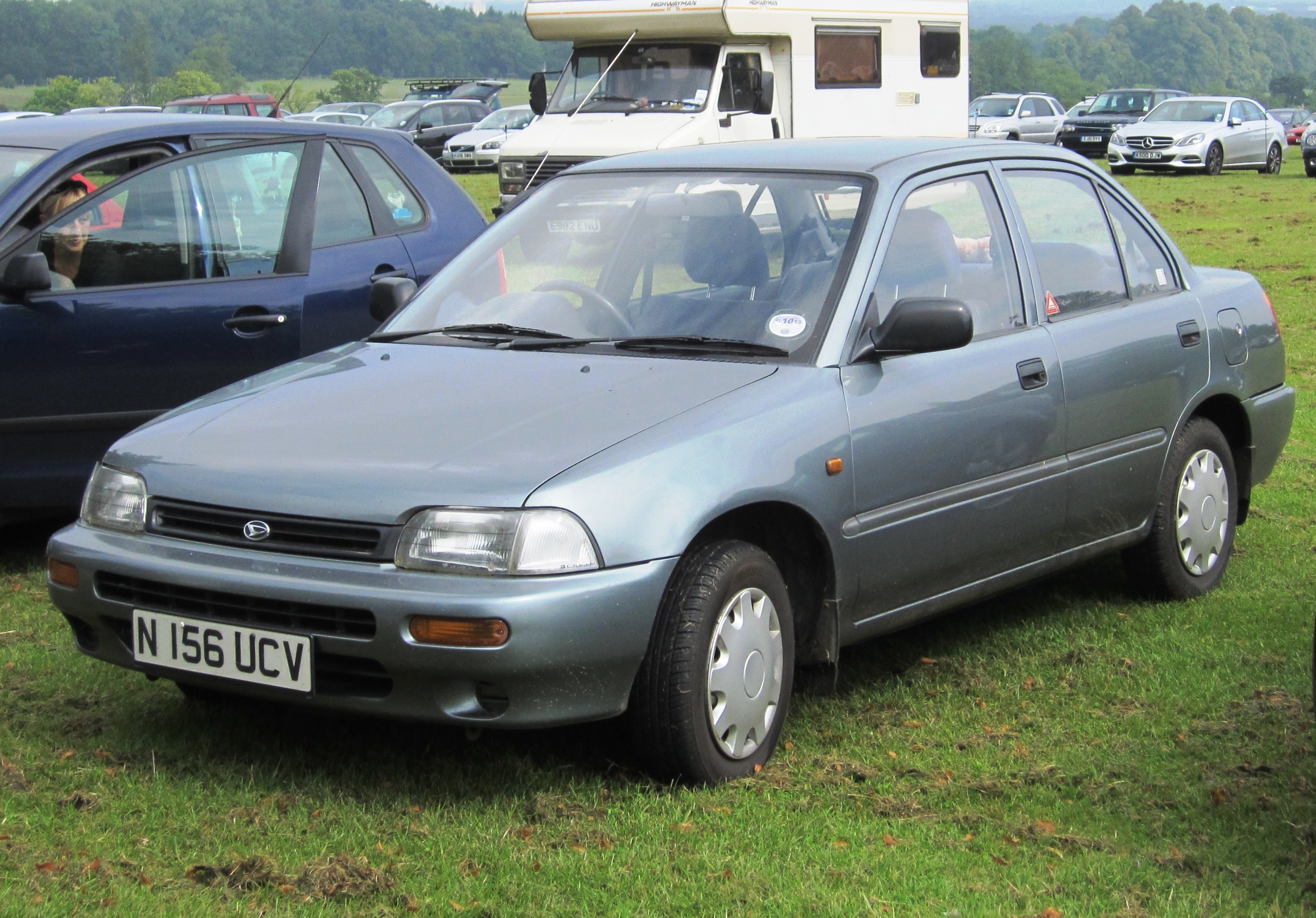 Daihatsu Charade 1.5 GLXi 4-door notchback sedan (1995)